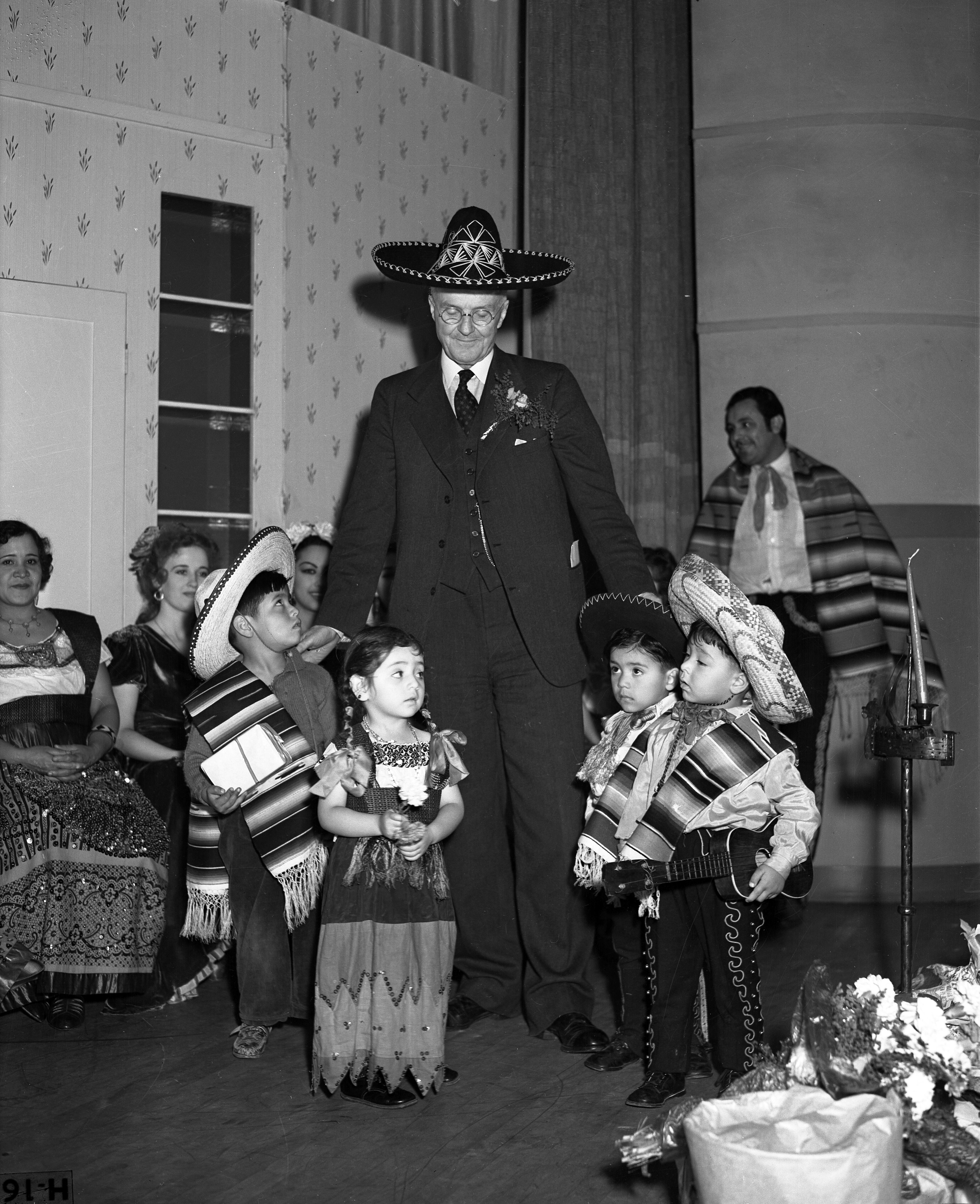 FRIENDS GREET PUBLISHER WITH SURPRISE PARTY: Harry Chandler, publisher of The Times, dons a gay sombrero to receive greetings from his little Olvera-street friends on his seventy-fourth birthday yesterday.